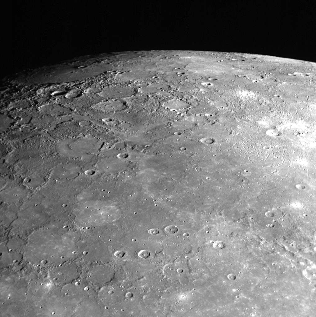 Mercury's north polar region, photographed on January 14, 2008, by the Narrow Angle Camera (NAC) of the Mercury Dual Imaging System (MDIS) on MESSENGER. The surface shown in this image is from the side of Mercury not previously seen by spacecraft. The top right of this image shows the limb of the planet, which transitions into the terminator on the top left of the image.